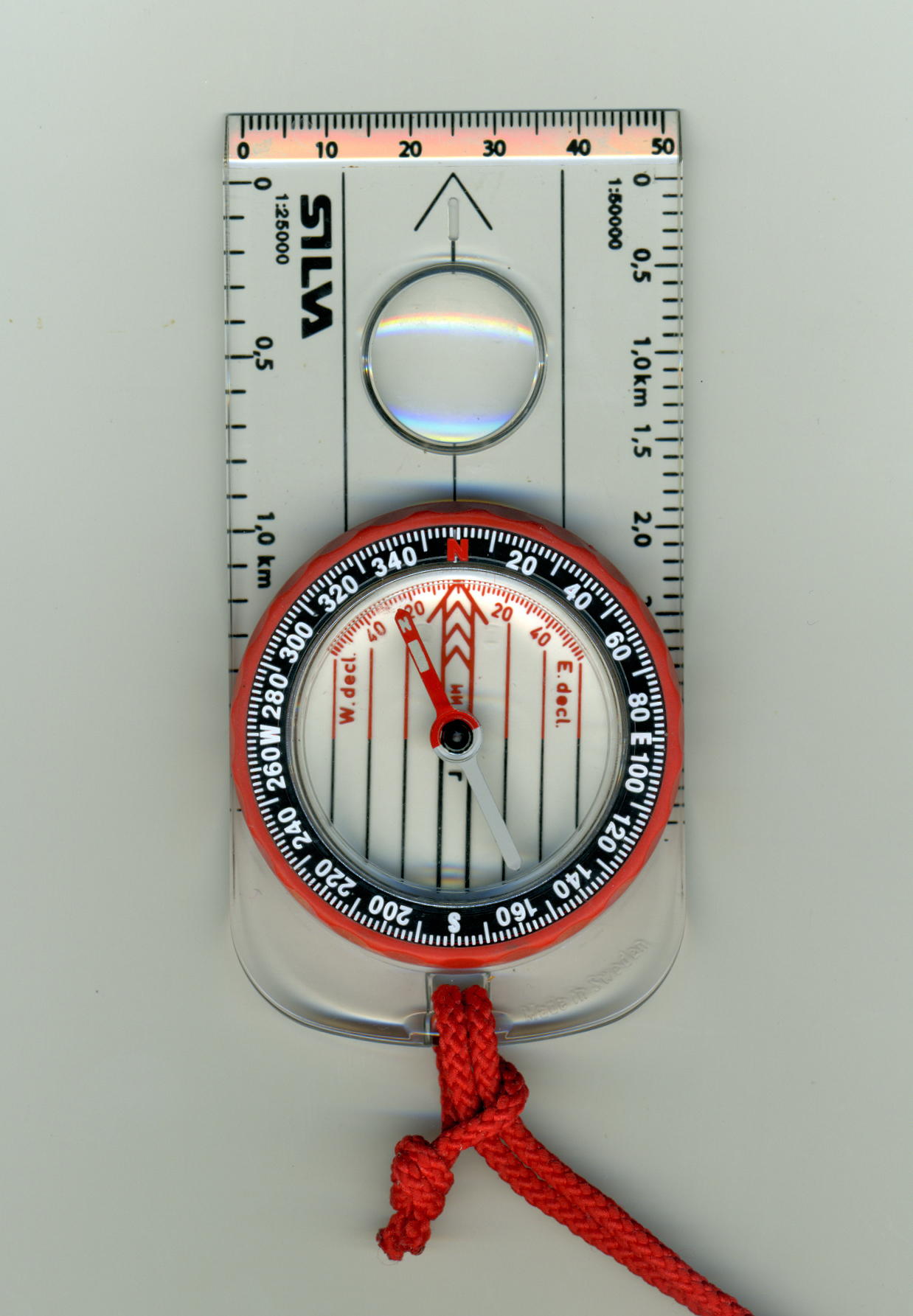 Walkers compass, bought in England. Scanned by Adrian Pingstone on a flat bed scanner in March 2009 and placed in the public domain. This is not a photograph!